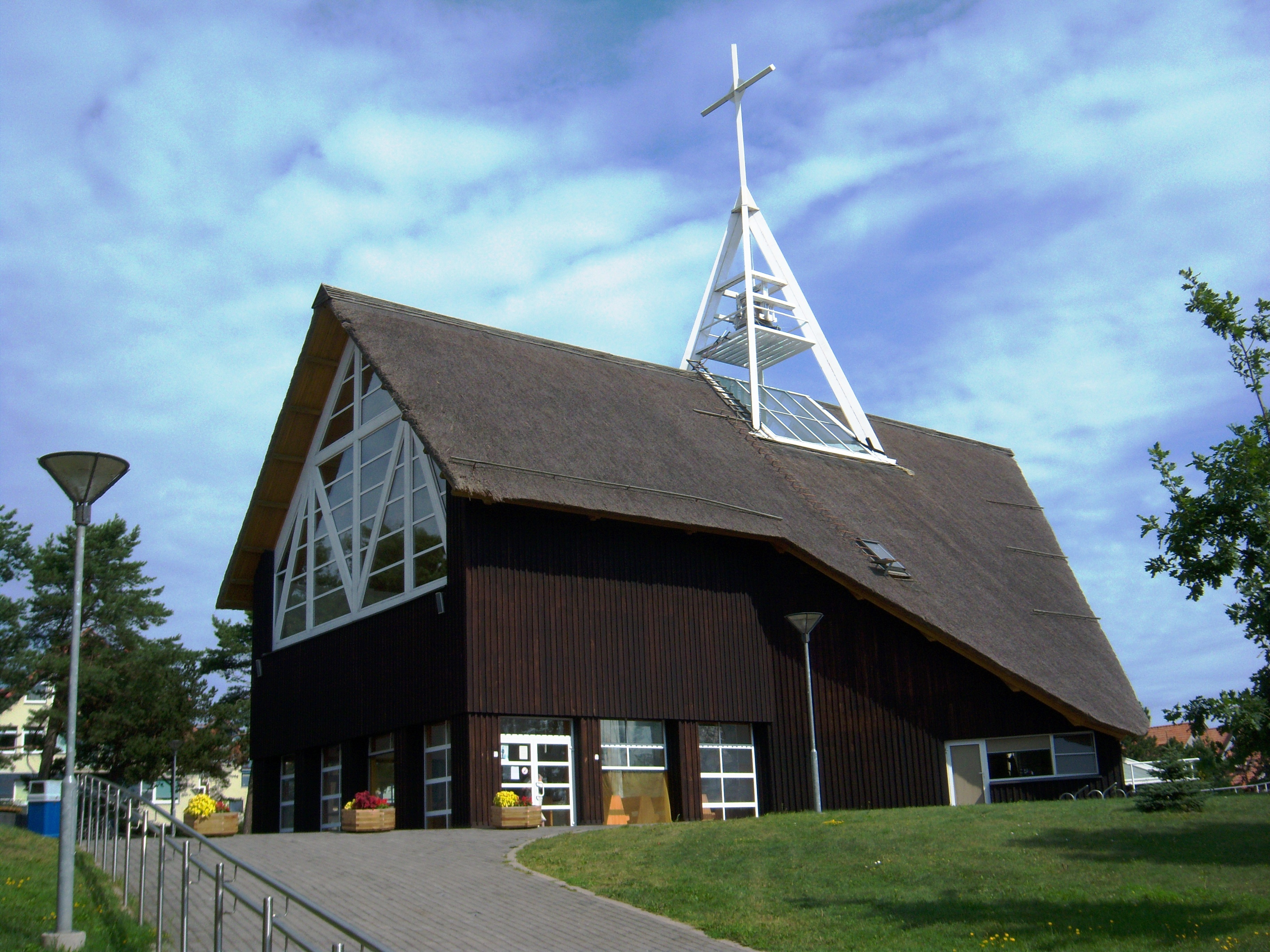 Catholic church in Nida, side facade, Lithuania